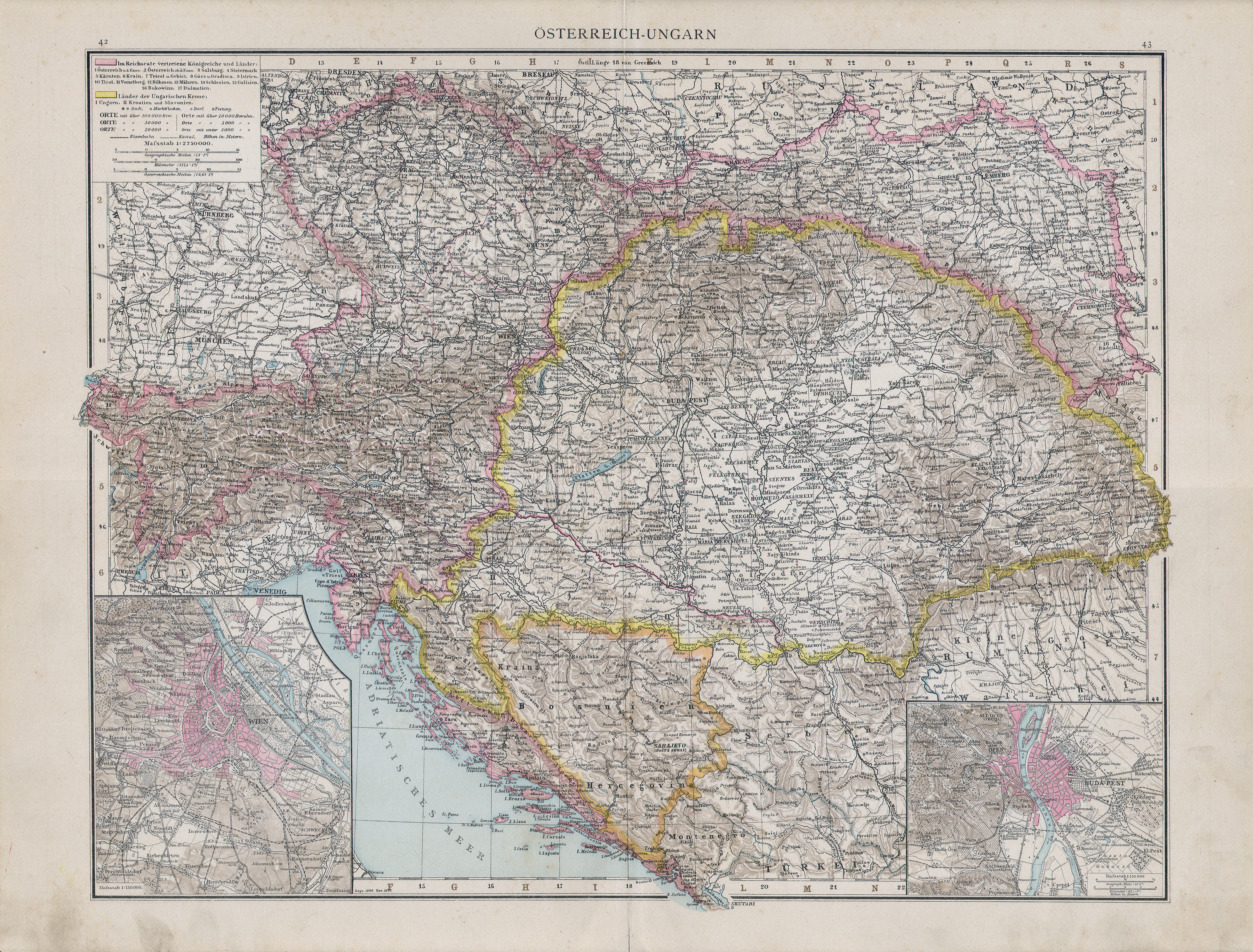 map of Austria-Hungary